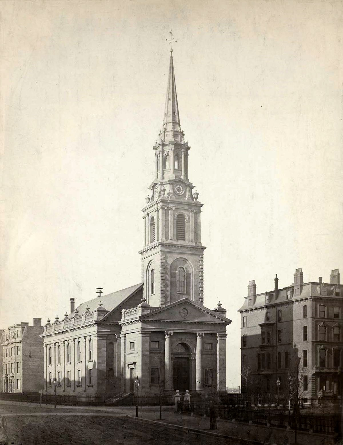 Arlington Street Church, Boston. about 1862. By Josiah Johnson Hawes, American, 1808–1901. Image/mount: 55.9 x 43.2 cm (22 x 17 in.). Mount: 64.5 x 47.9 cm (25 3/8 x 18 7/8 in.). Photograph, albumen print mounted on board. Museum of Fine Arts, Boston.